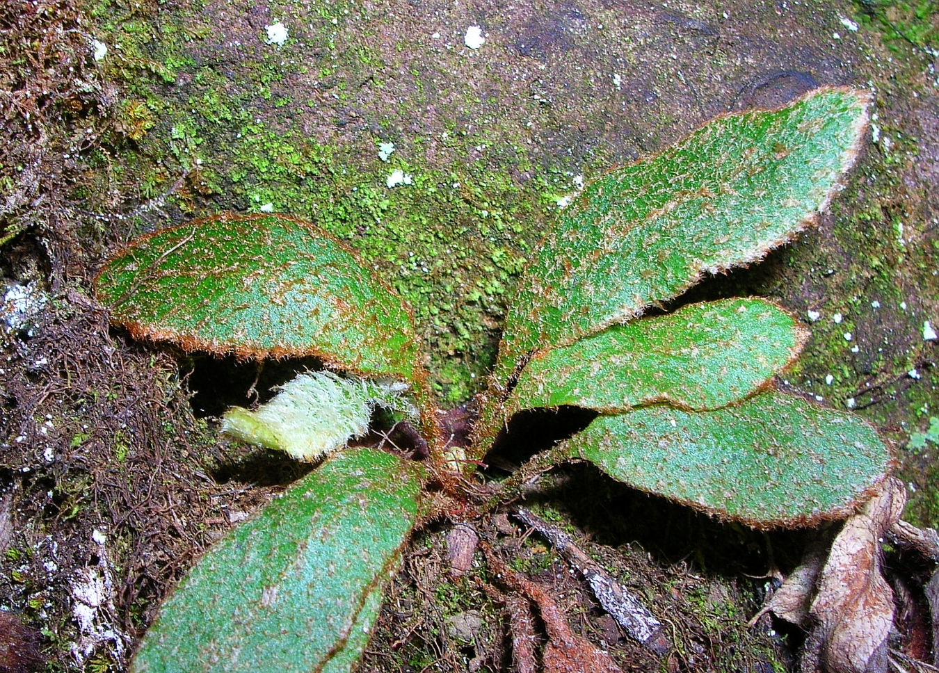 Elaphoglossum paleaceum (habit). Location: Maui, Puu Nianiau